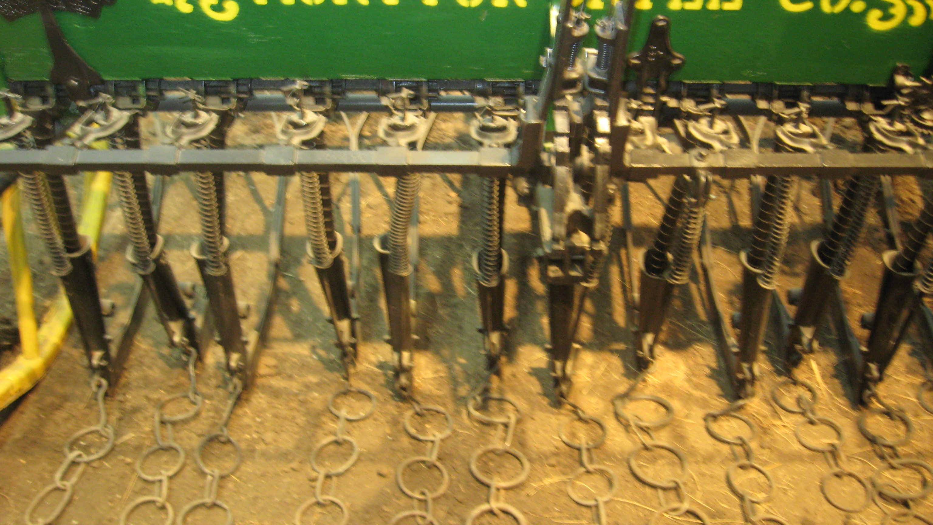 12-run seed drill built by Monitor Manufacturing Company of Minneapolis, 1902 model, shot at Western Development Museum, Saskatoon